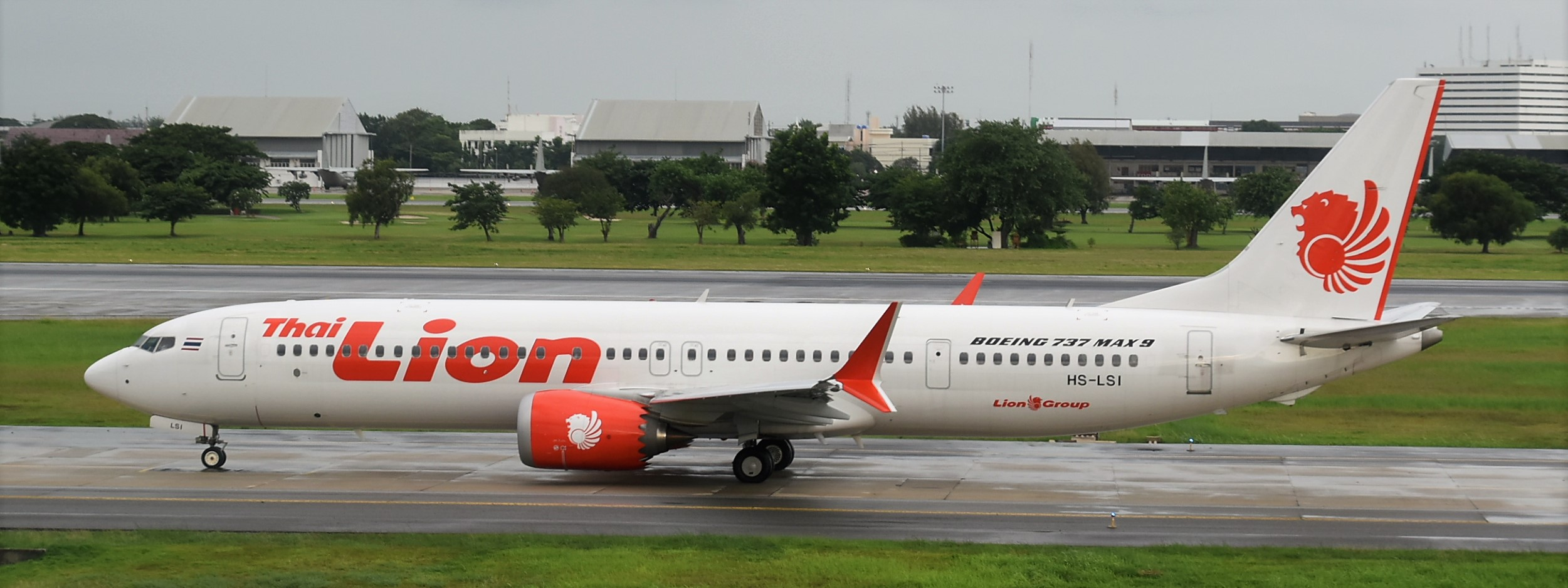 Boeing 737/9MAX of Thai Lion Air at Bangkok-DMK, Thailand, 14/08/18.